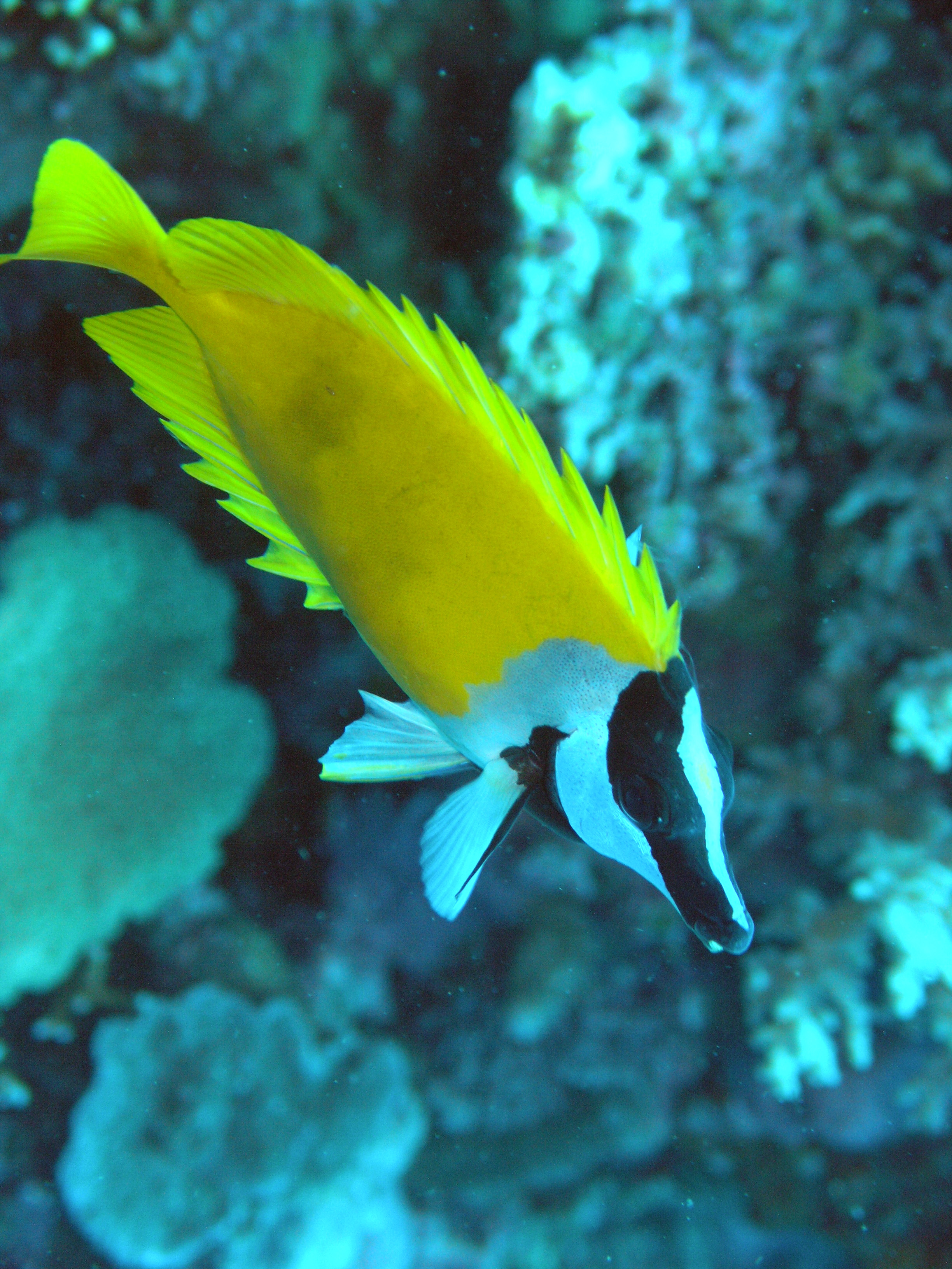 scuba diving near Swallow Reef (Pulau Layang-Layang) in Spratly Islands, South China Sea